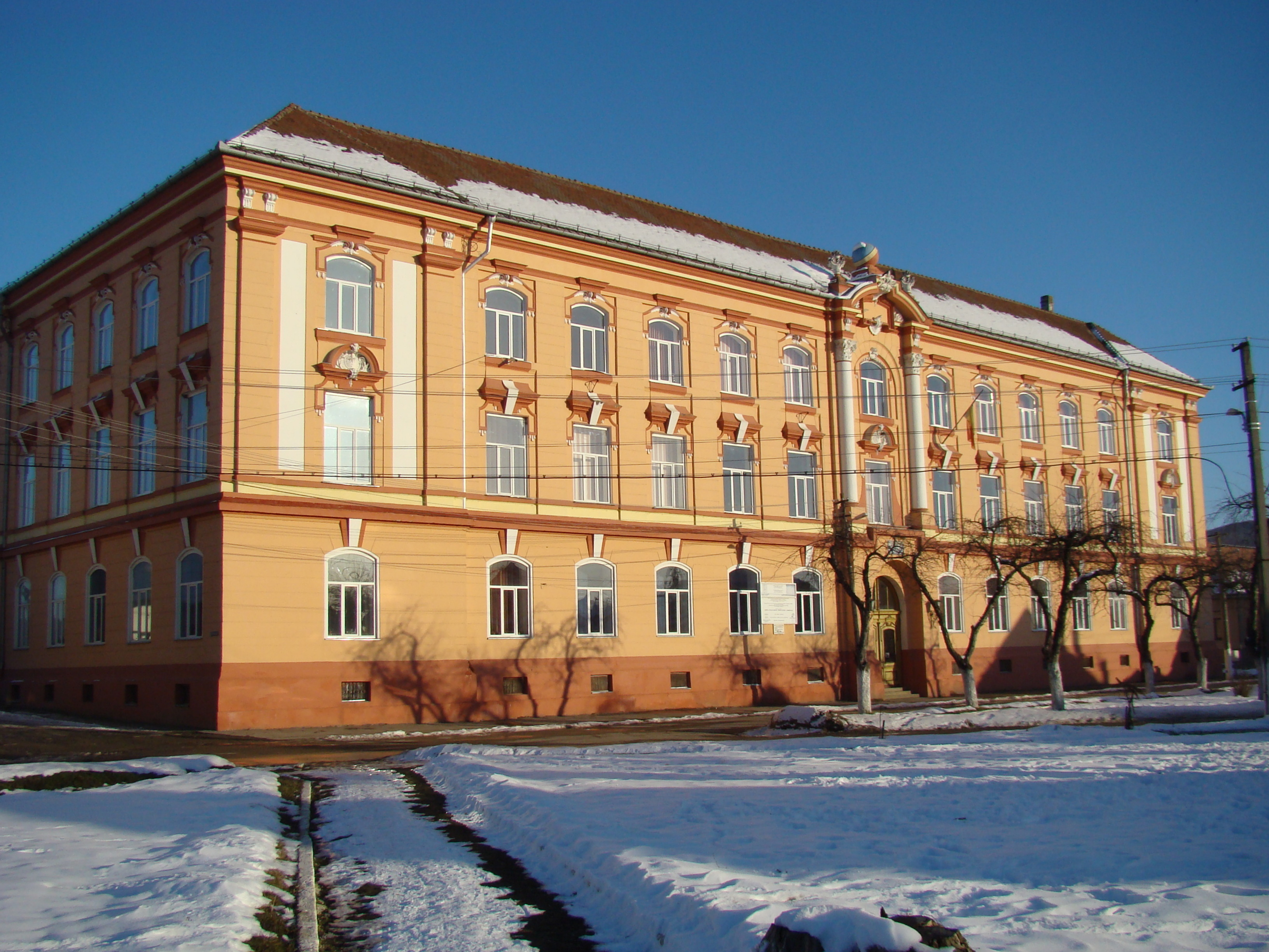 Dumbrăveni, Sibiu county, Romania